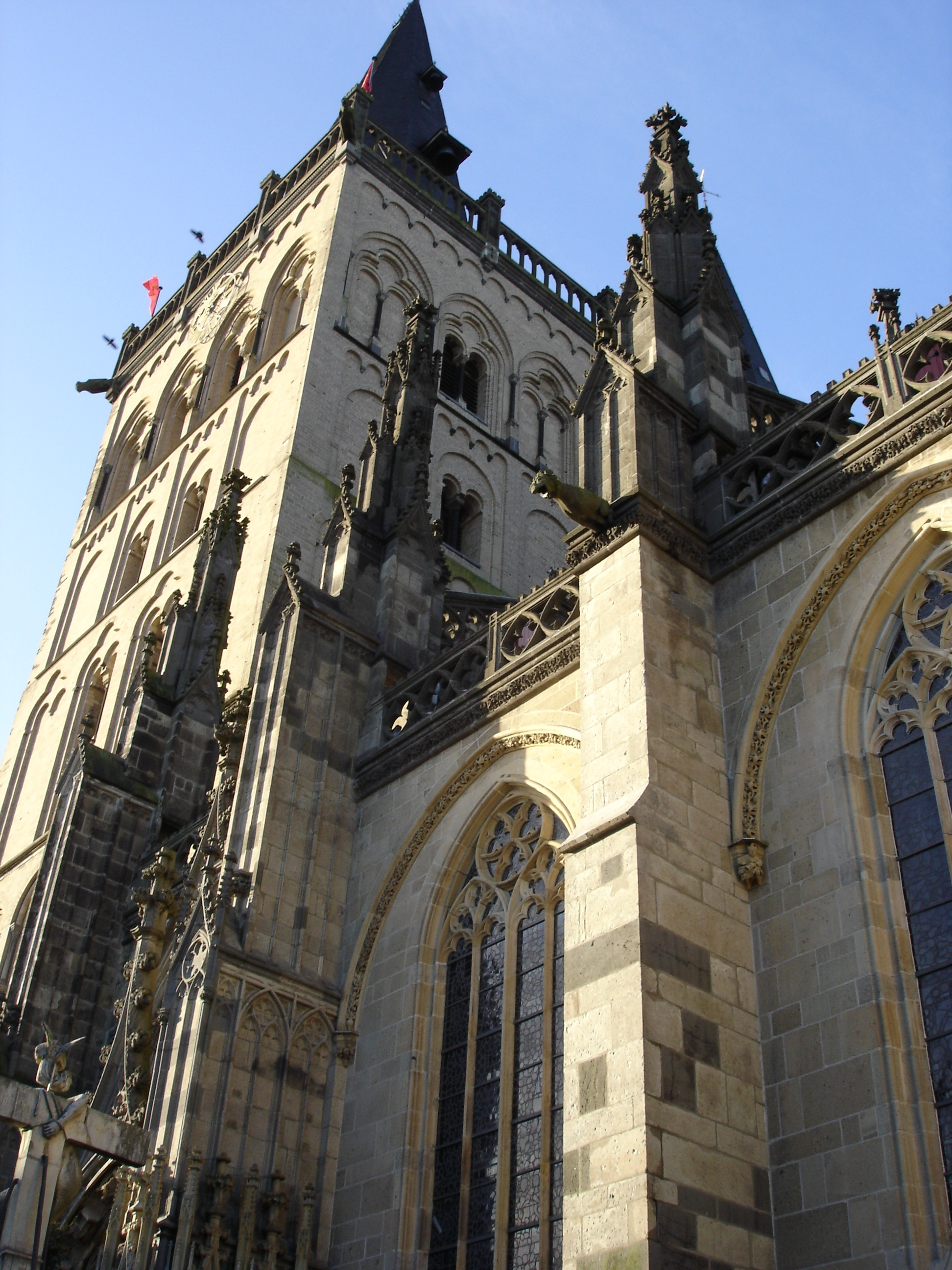 St. Viktor Cathedral, Xanten, Germany